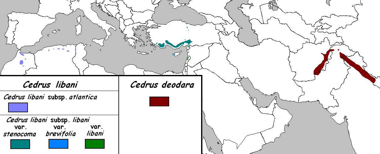 Distribution map of two Cedrus species. Cedrus deodara (Deodar Cedar) - red (Himalaya) Cedrus libani subspecies and varieties Cedrus libani subsp. libani - (eastern Mediterranean) Cedrus libani var. brevifolia - syn. Cedrus brevifolia (Cyprus Cedar) - blue (Cyprus). Cedrus libani var. libani - (Lebanon Cedar) - green (Lebanon). Cedrus libani var. stenocoma (Turkish Cedar) - blue-green (Turkey). Cedrus libani subsp. atlantica - syn. C. atlantica, C. l. var. atlantica (Atlas Cedar) - violet (Atlas Mountains). Sources Browicz, K. & Zielinski, J. (1982). Chorology of Trees and Shrubs in southwest Asia vol. 1. Kurt, Y., Kaya, N., & Işik, K. (2008). Isozyme Variation in Four Natural Populations of Cedrus libani A.Rich. in Turkey. Turk. J. Agric. Forest. 32: 137-145. Terrab, A., Hampe, A., Lepais, O., Talavera, S., Vela, E., & Stuessy, T. F. (2008). Phylogeography of North African Atlas Cedar: combined molecular and fossil data reveal a complex Quaternary history. American Journal of Botany 95 (10): 1262–1269.